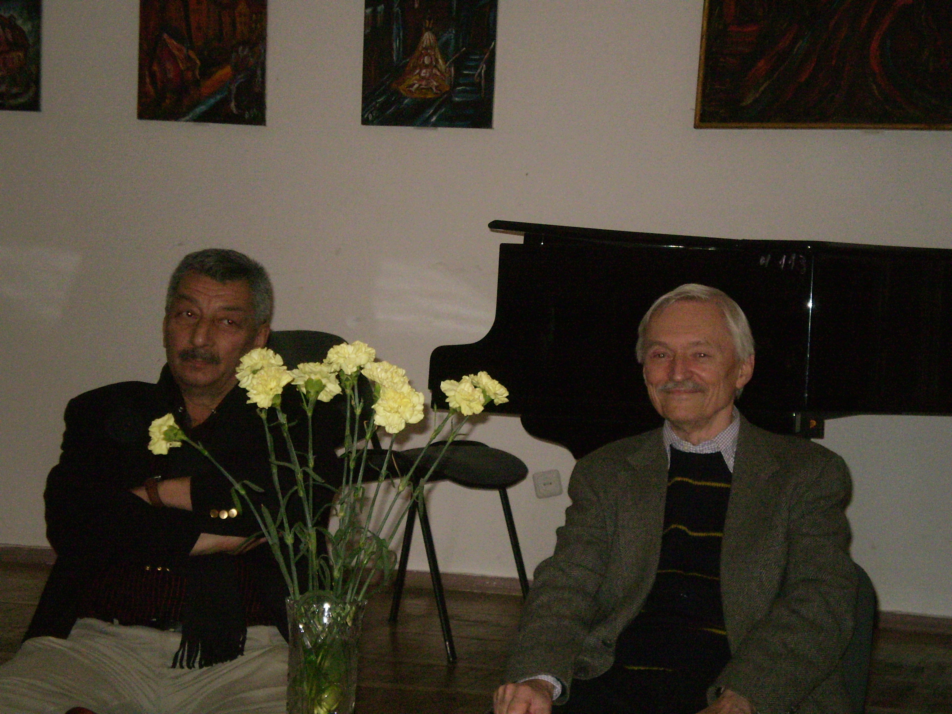 Leonid Hrabovsky and Merab Gagnidze in Kiev, 2008